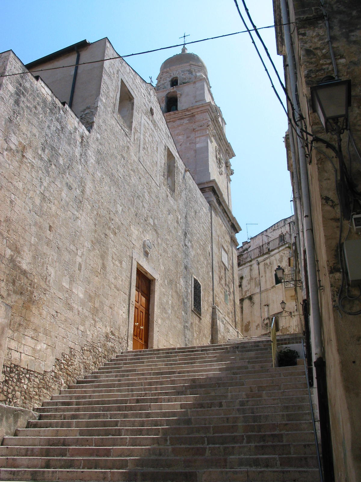 Vieste, Puglia, ItaliaVieste, Gargano, the famos medieval tower. Torre Sacra.